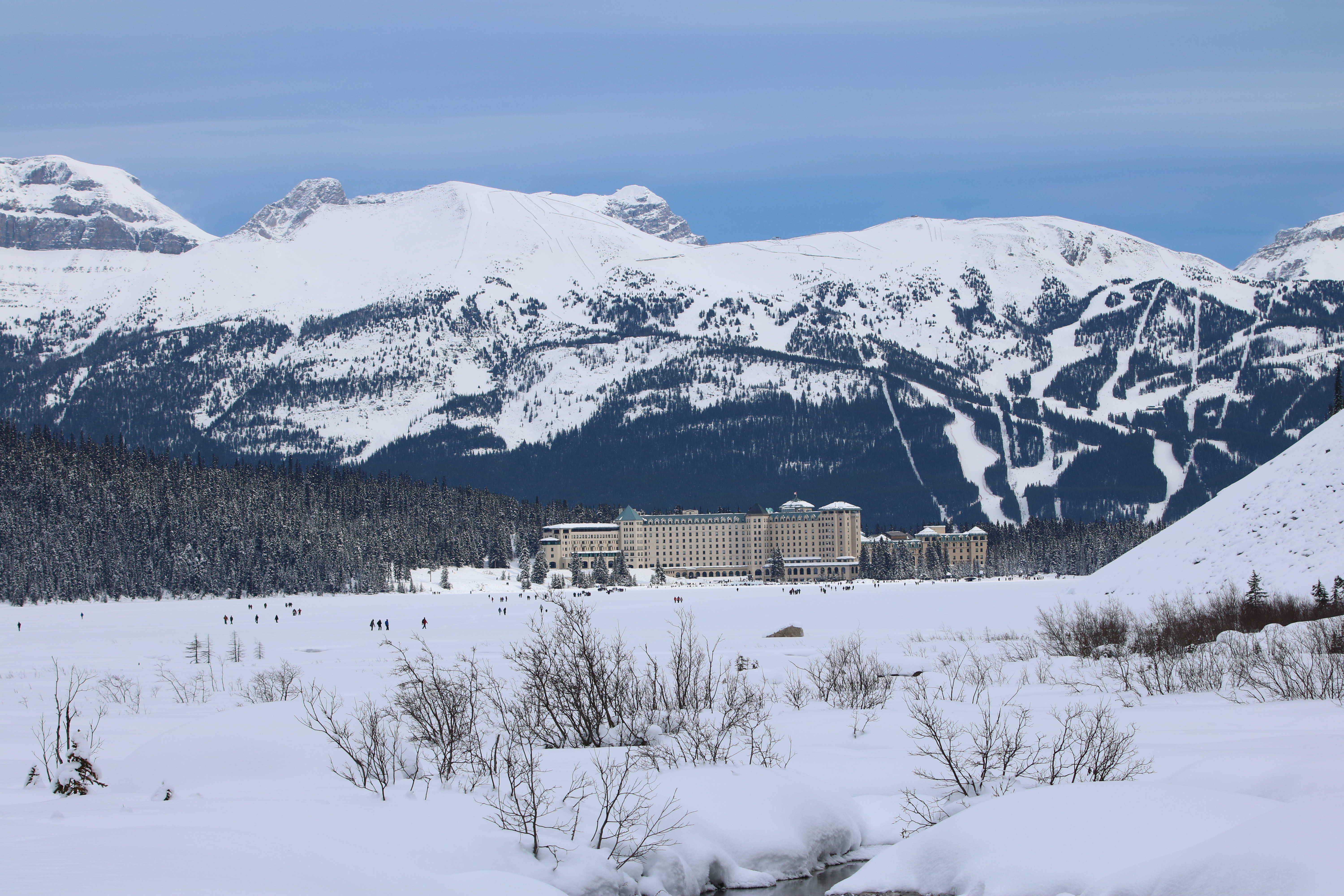 I cant really go to the lake without including a few shots of the hotel